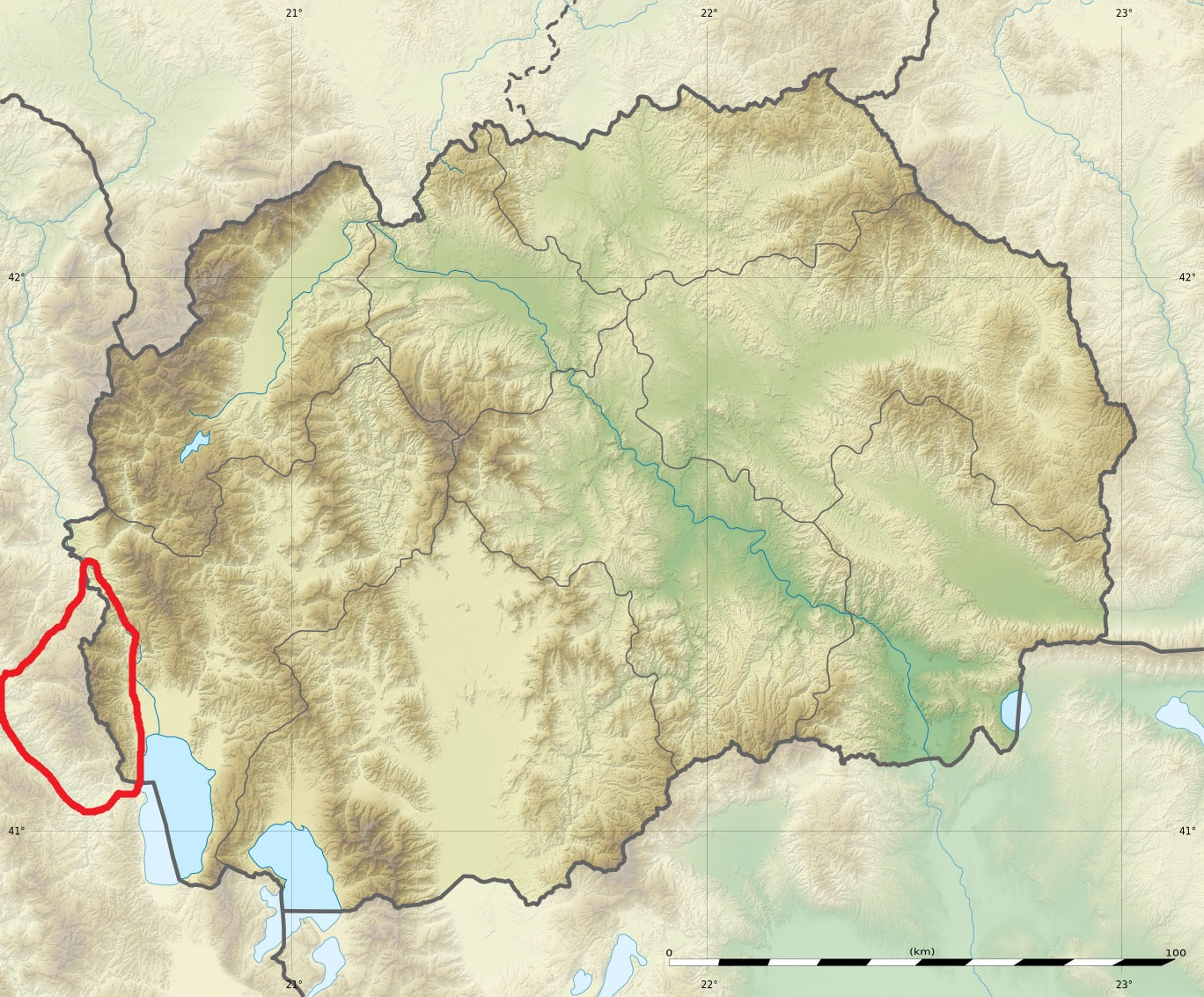 Physical map of the Jablanica in the Republic of Macedonia.